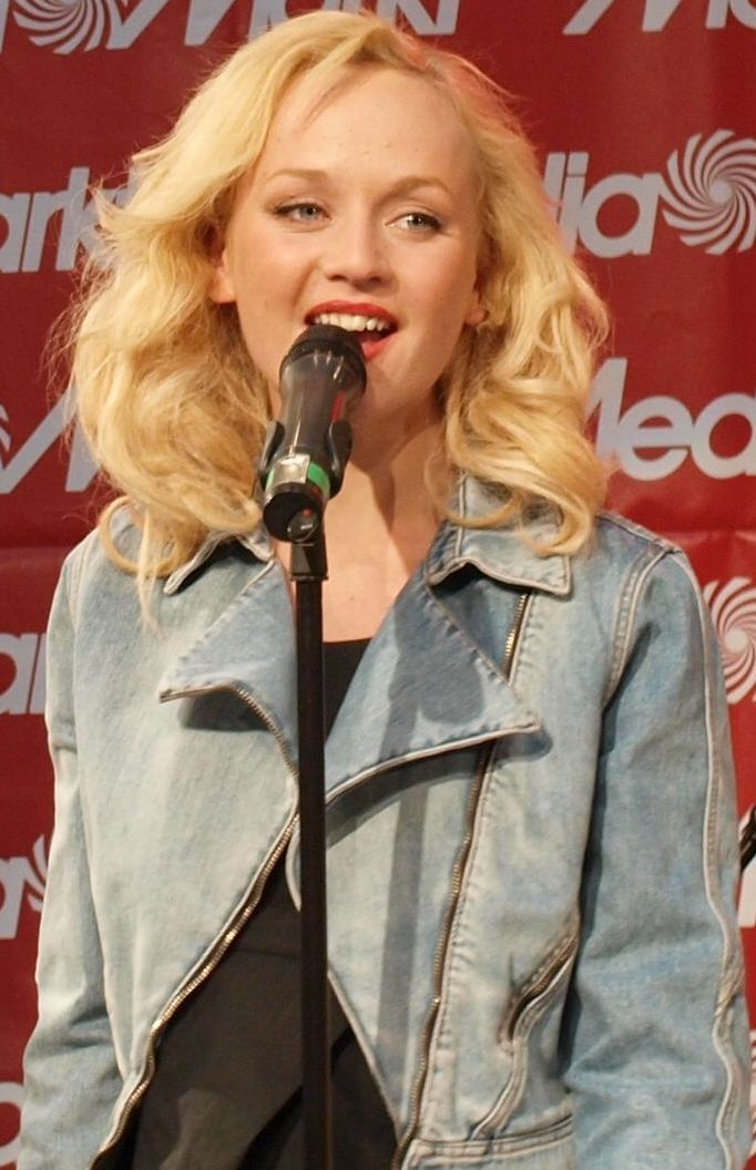 Anna Bergendahl performing in Forum Nacka.